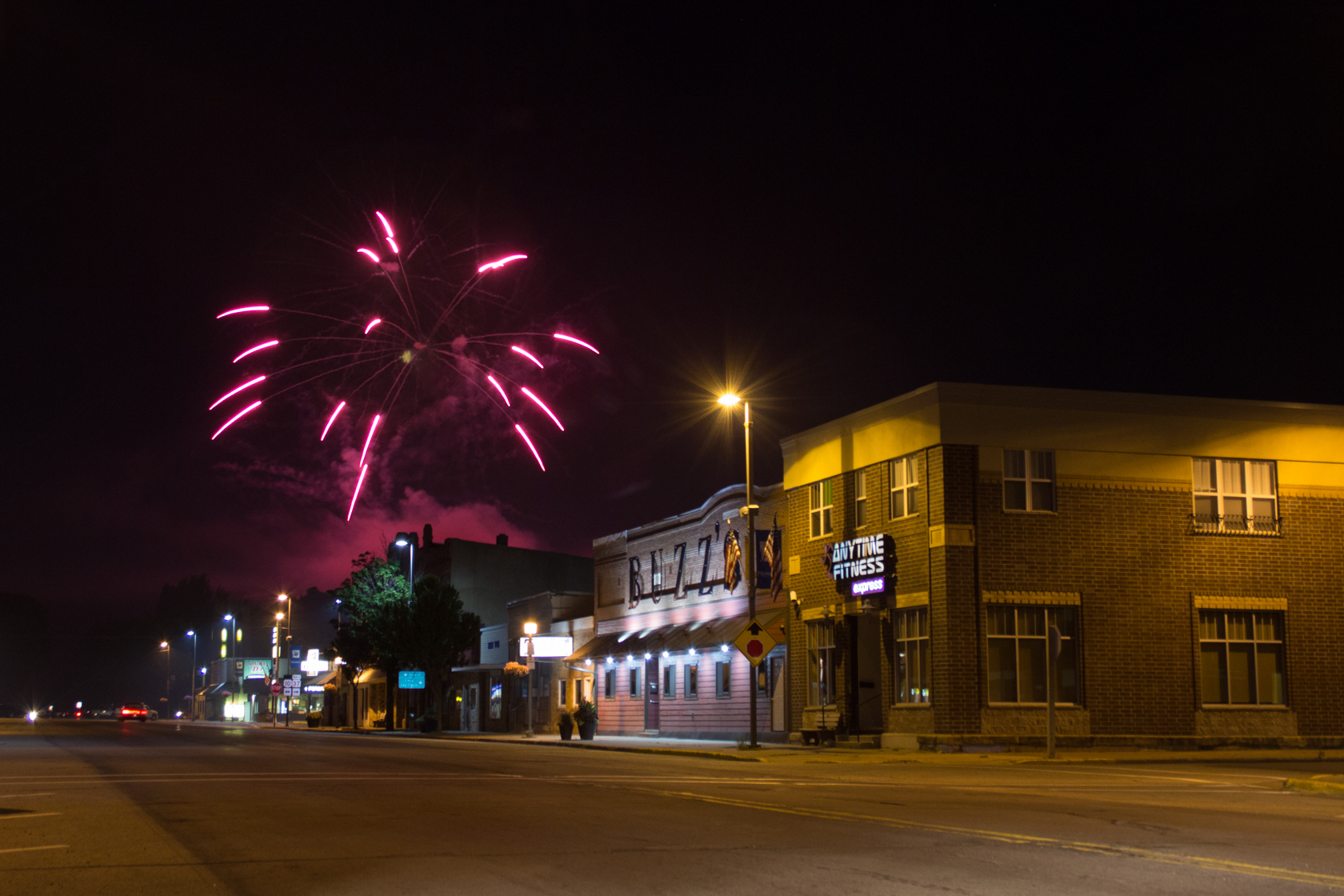 Fireworks seen from W. Hudson St. and S. Eau Claire St., downtown Mondovi, July 4, 2020.